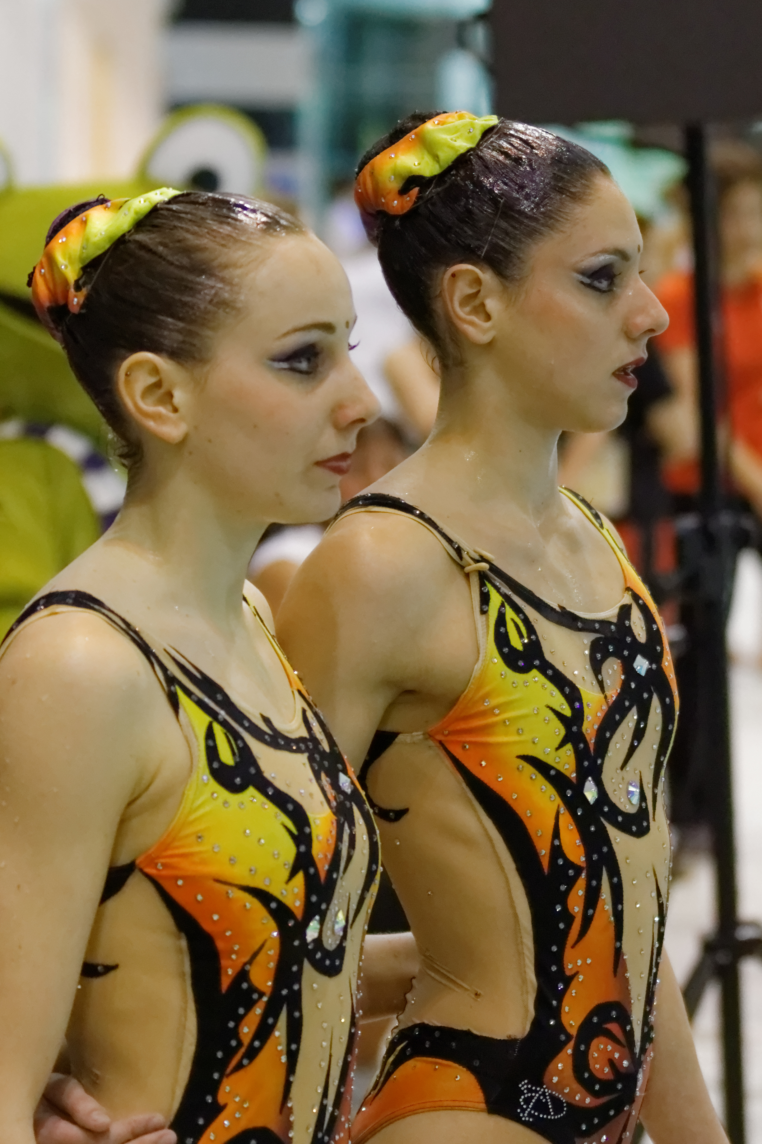 Linda Cerruti and Costanza Ferro, duet free routine (final), Open Make Up For Ever.